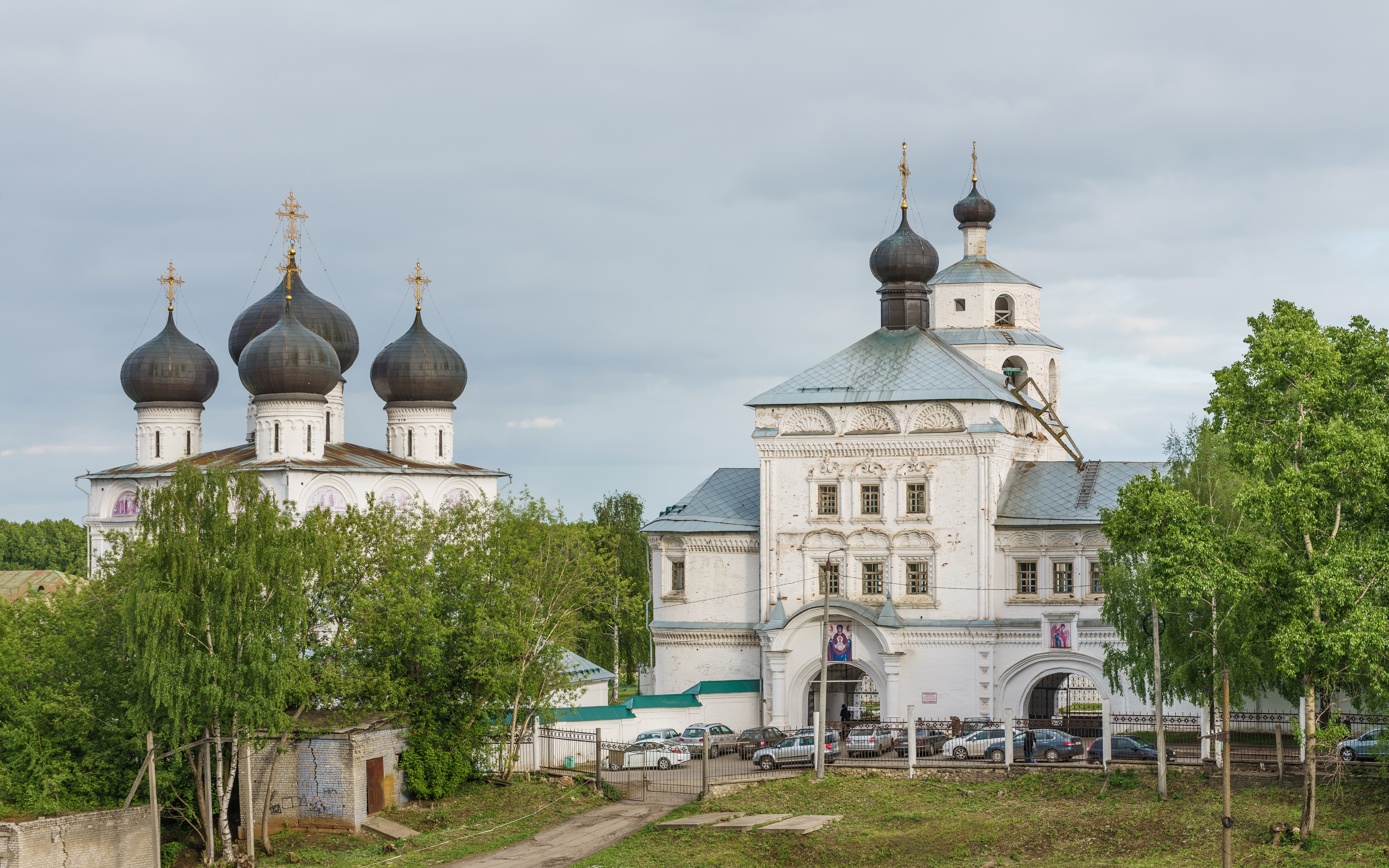 Trifonov Monastery in Kirov, Russia